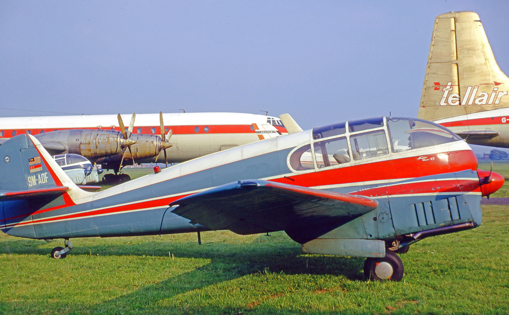 Aero Super 45 series II 9M-AOPF registered in Malaya at Coventry Airport in 1971